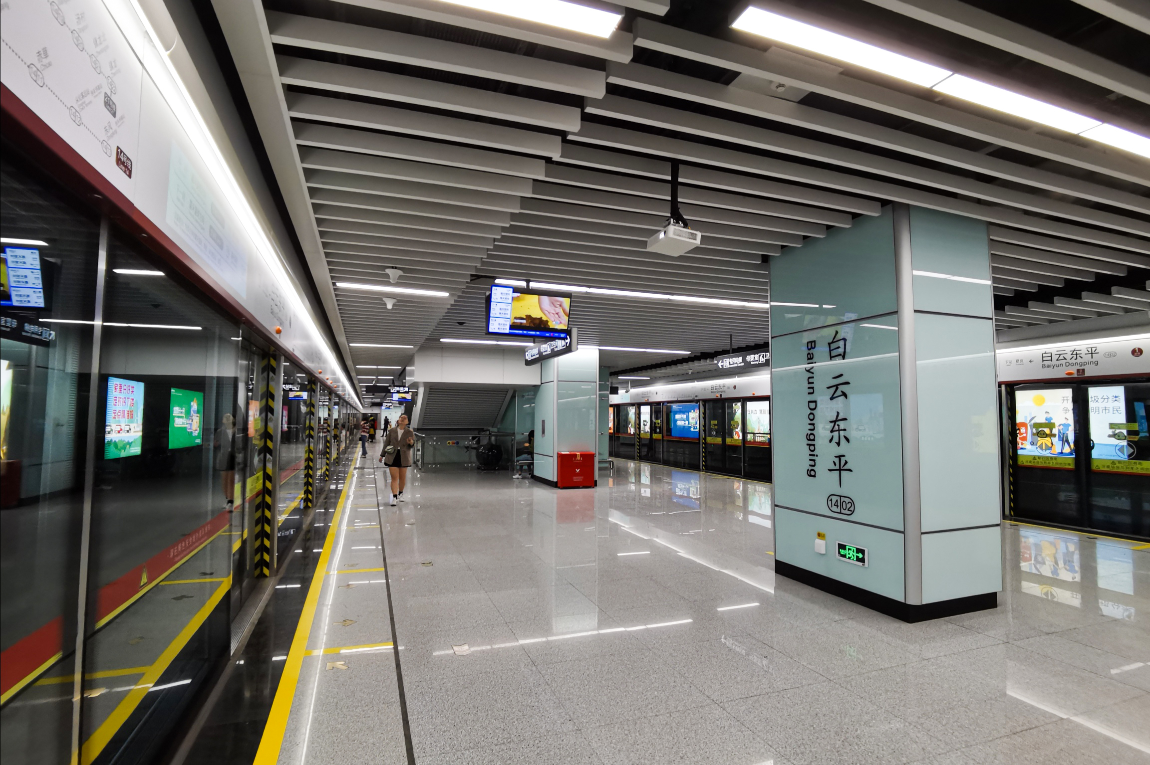 广州地铁白云东平站